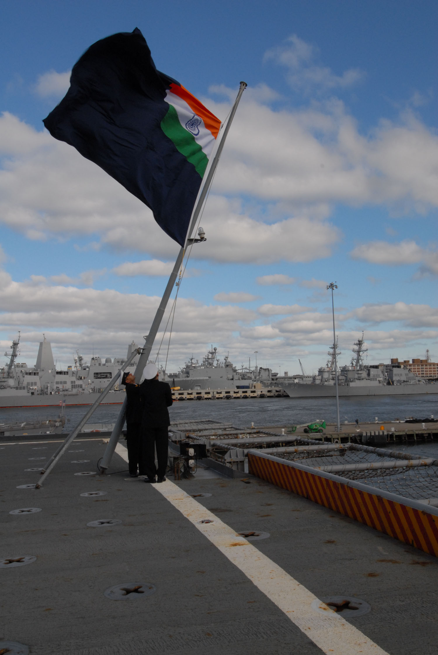 Norfolk, Va. (Jan. 17, 2007) - Indian sailors raise their national flag aboard the amphibious transport dock USS Trenton (LPD 14), which was decommissioned after 35 years of naval service. The Indian navy assumed immediate ownership of the Trenton and renamed her INS Jalashva. U.S. Navy photo by Mass Communication Specialist 2nd Class Leslie Tomaino (RELEASED)